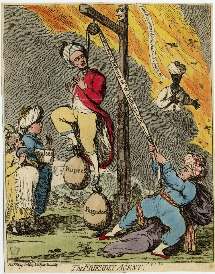 Satirical print, Warren Hastings hanged by the efforts of his own political agent John Scott.